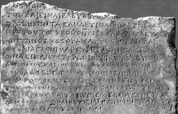 Moschus Ioudaios Inscription from Oropos [— — — — — — — — — — — ἐφ’ ὧι τε] Μόσχον Φρ̣[υνίδαι παραμένειν ἐνιαυ]- τὸν καὶ εἶναι ἐλεύθερον μη[θενὶ μηθὲ]ν 4 προσήκοντα· ἐὰν δέ τι πάθηι Φρυνίδας πρὸ τοῦ τὸγ χρόνον διεξελθεῖν, ἐλεύθερο[ς] ἀπίτω Μόσχος οὗ ἂν αὐτὸς βούληται· τύχηι ἀγαθῆι· μάρτυρες· Ἀθηνόδωρος 8 Μνασικῶντος Ὠρώπιος, Βίοττος Εὐδίκου Ἀθηναῖος, Χαρῖνος Ἀντιχάρμου Ἀθηναῖος, Ἀθηνάδης Ἐπιγόνου Ὠρώπιος, Ἵππων Αἰσχύ- λου Ὠρώπιος· Μόσχος Μοσχίωνος Ἰουδαῖος 12 ἐνύπνιον ἰδὼν προστάξαντος τοῦ θεοῦ Ἀμφιαράου καὶ τῆς Ὑγείας καθ’ ἃ συνέταξε ὁ Ἀμφιάραος καὶ ἡ Ὑγίεια ἐν στήληι γράψαντα ἀναθεῖναι πρὸς τῶι βωμῶι. - - - as long as Moschos stays with Phrynidès all year round, and he will be free without owing anything to anyone; if something happens to Phrynides before the end of this period, Moschos will be free to go where he wants. To Good Fortune. Witnesses: Athénodore son of Mnasikon of Oropos, Biottos son of Eudicos of Athens, Charinos son of Anticharmos of Athens, Athénadès son of Épigonos d'Oropos, Hippon son of Eschyle d'Oropos. . . . Moschos (son) of Moschion, an ioudaios, set up (this stele) having seen a dream of the god Amphiaraos and of Hygeia, in accordance with what Amphiaraos and Hygeia commanded, having written (it) on a stele, to set it up at the altar.